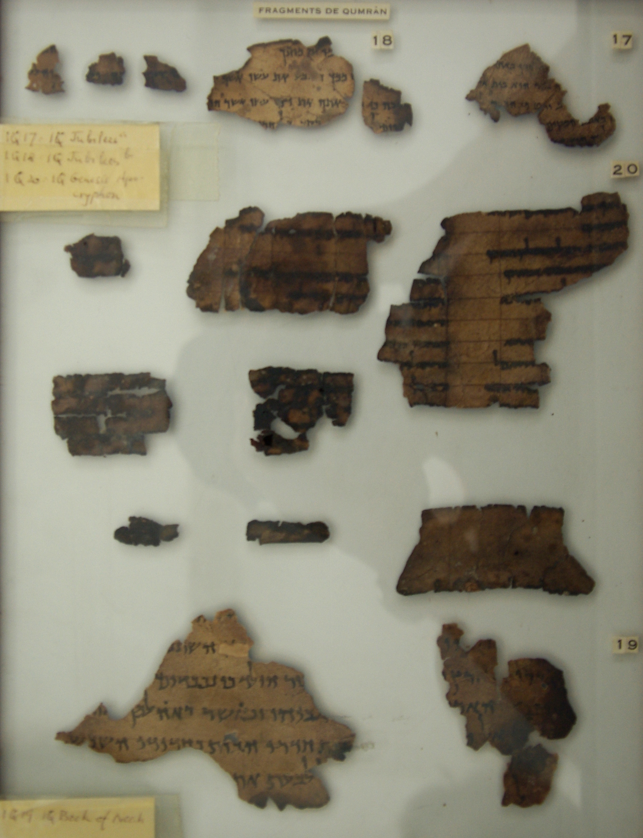 Jordan, Amman, Dead Sea Scroll 1Q17, 18, 19, 20